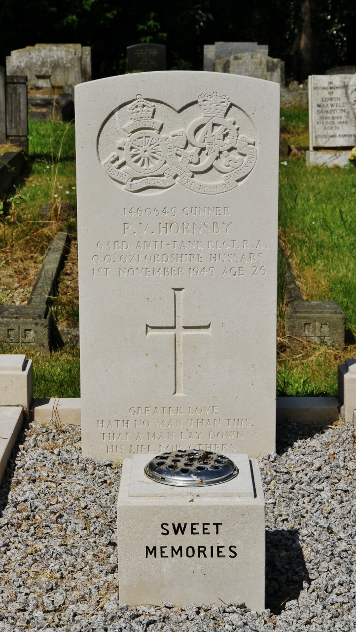 Commonwealth War Graves Commission headstone in Rose Hill Cemetery, Cowley, Oxfordshire, of Gnr Peter Hornsby, 63 (QOOH) Anti-Tank Regt RA, who died 1 November 1945 aged 26